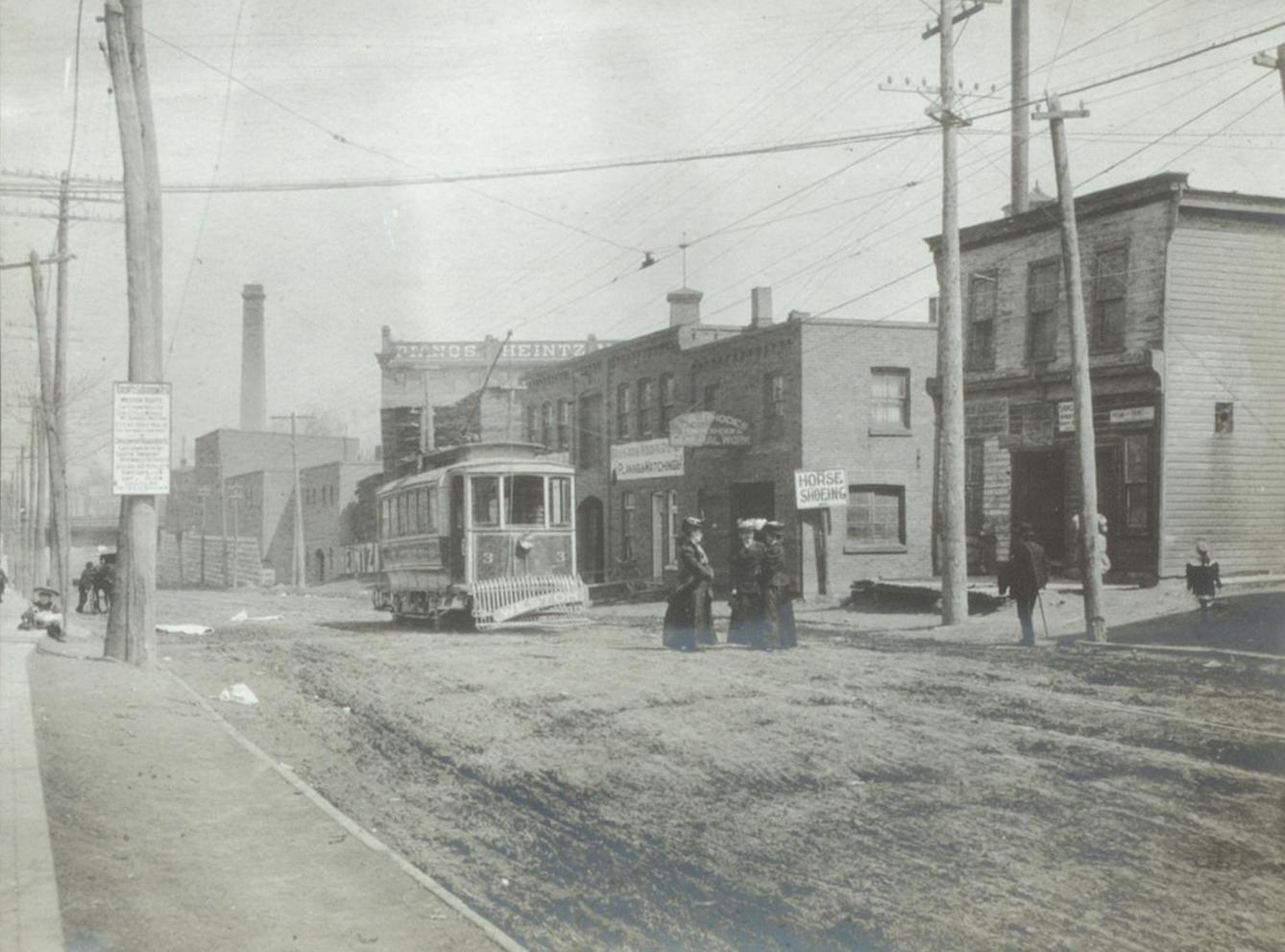 The Weston Streetcar in Toronto's Junction neighbourhood. Toronto, Ontario, Canada.